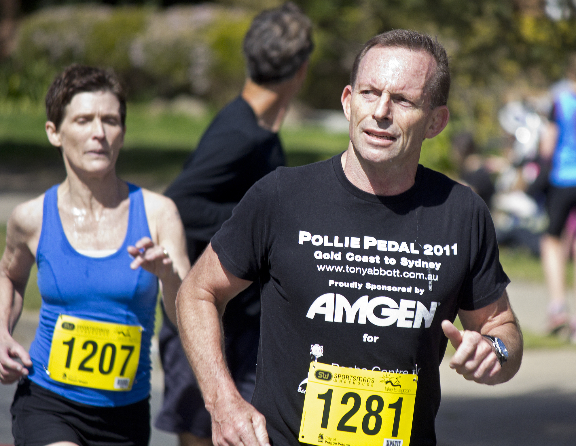 Tony Abbott competing in the Lake to Lagoon, nearing the finishing line on Burns Way in Wagga Wagga.